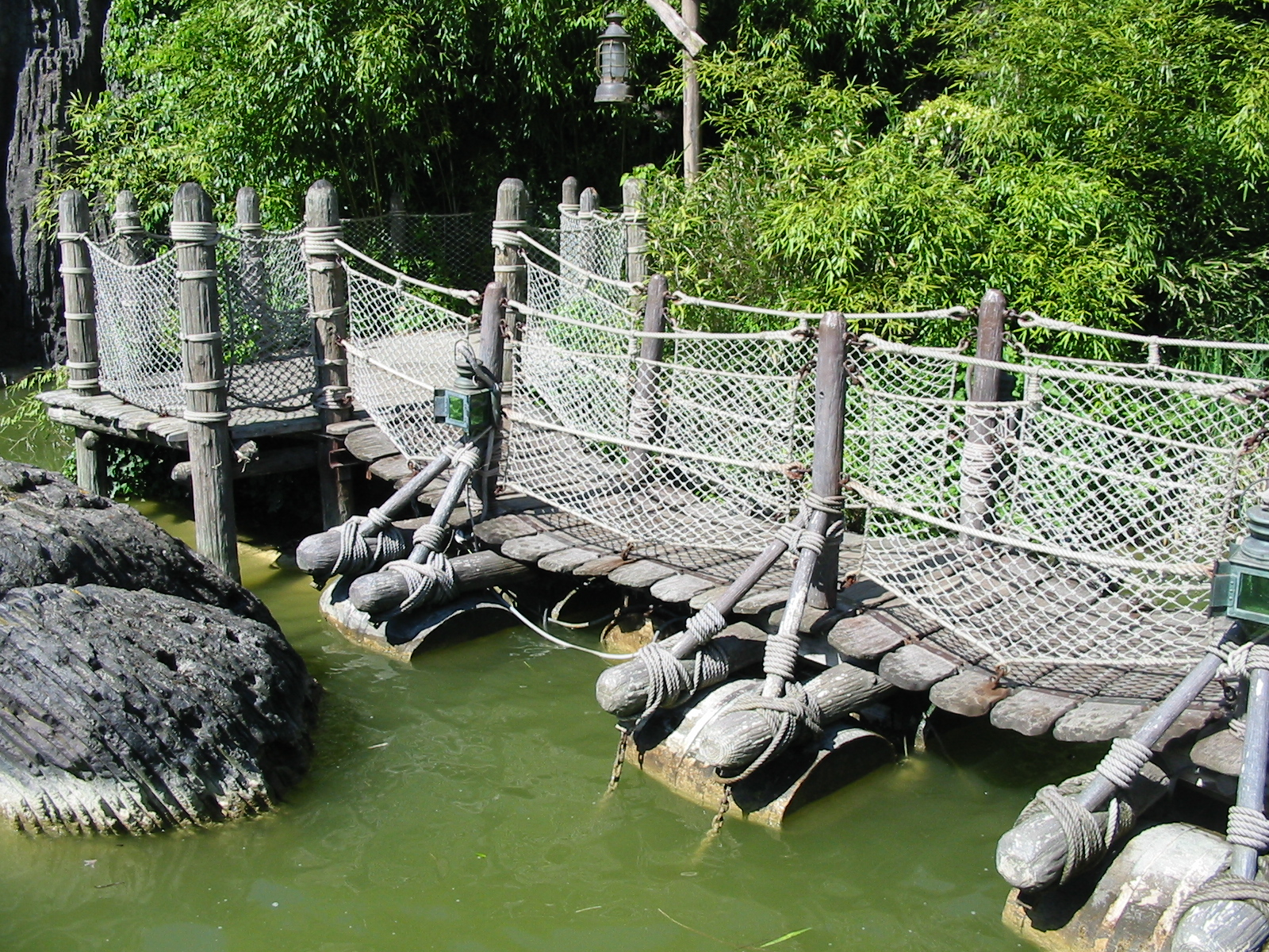 Floating bridge Disneyland Paris may 2005